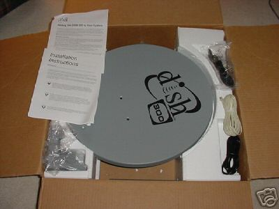 ebay my picture